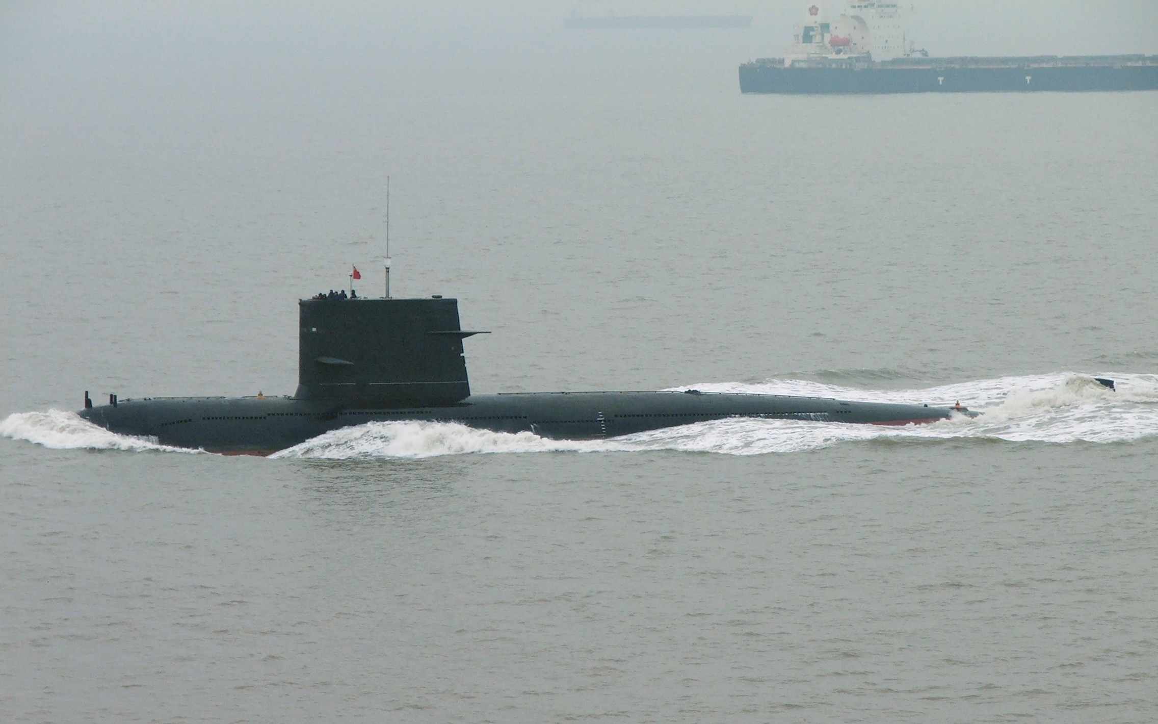 Song-class Submarine